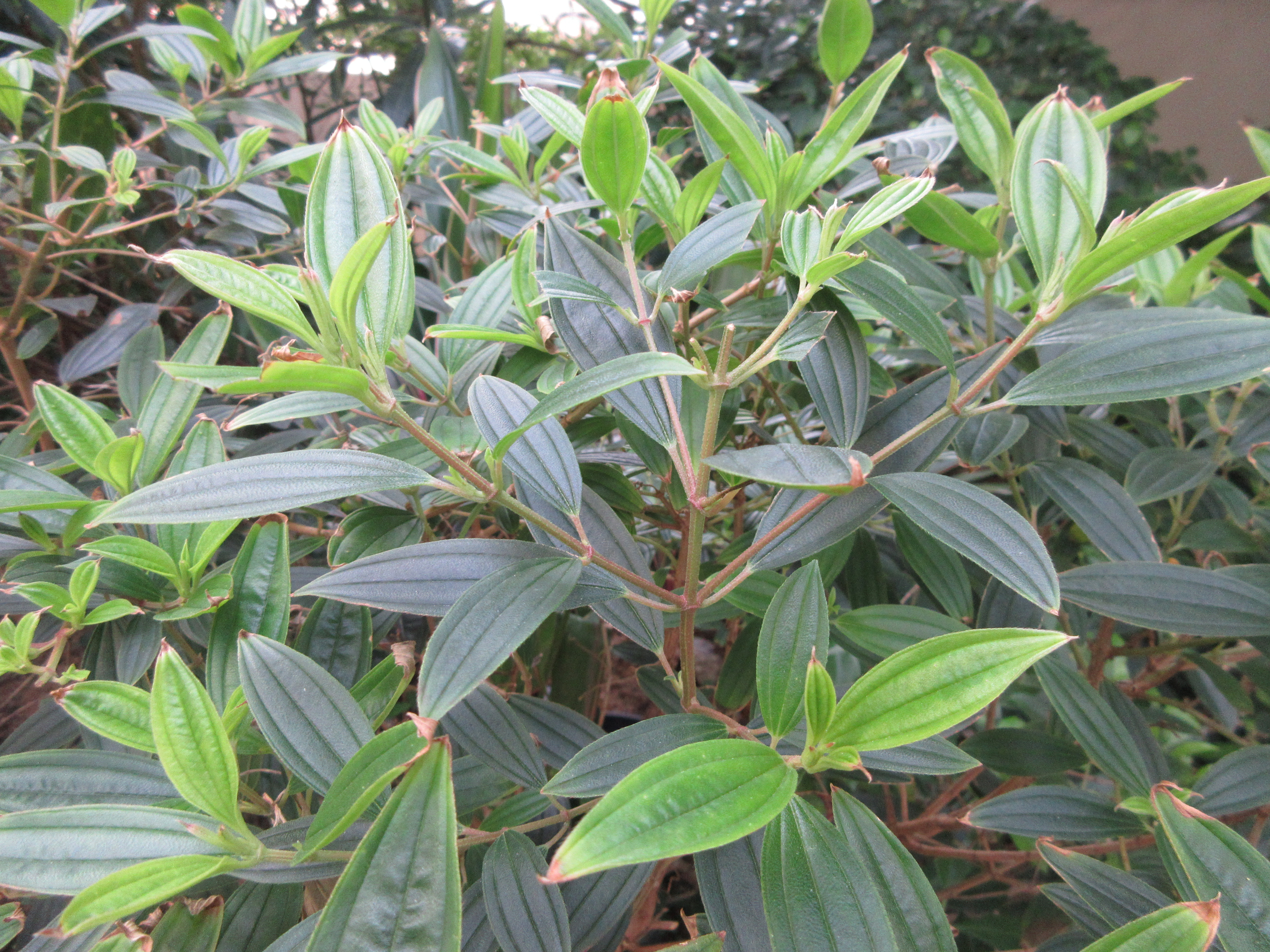 HK 灣仔 Wan Chai 囍匯 The Avenue Rooftop Garden terrace in October 2017